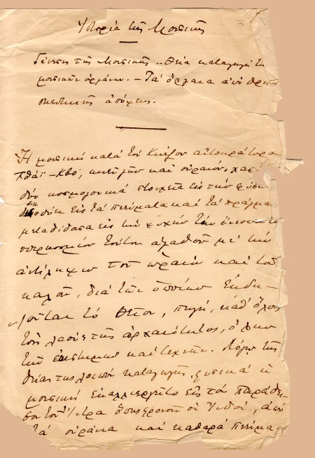 Manuscript "History of Music"